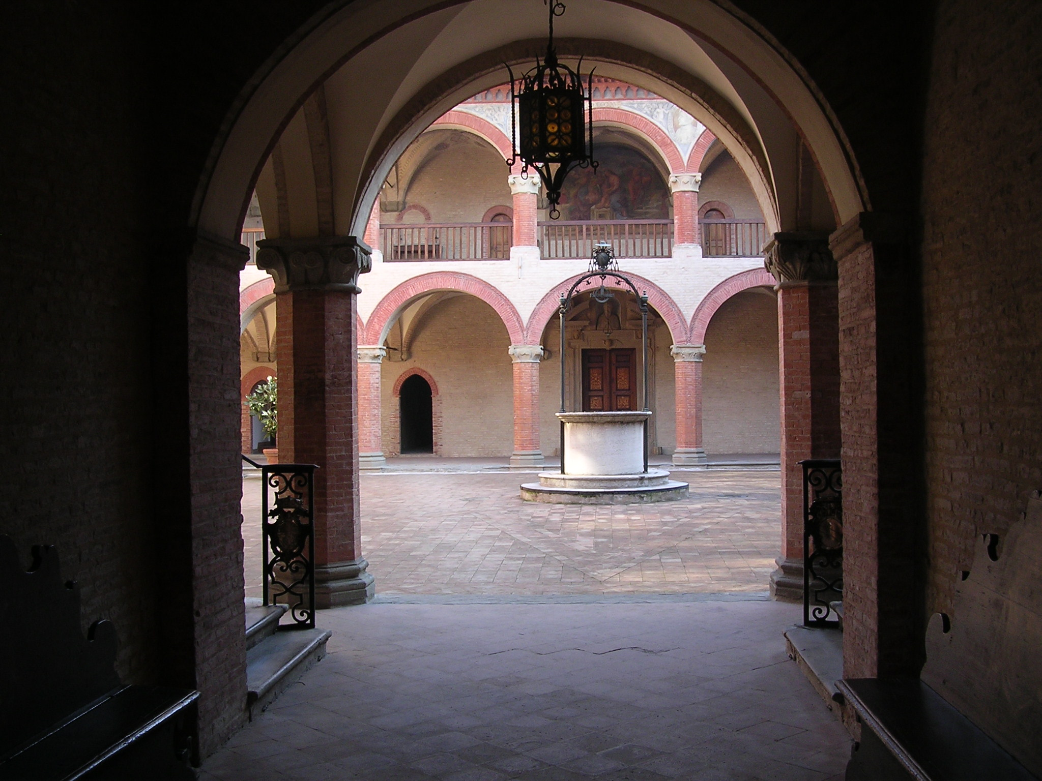 The Collegio di Spagna, a historic university college, originally founded to support Spanish students in Bologna, Italy.